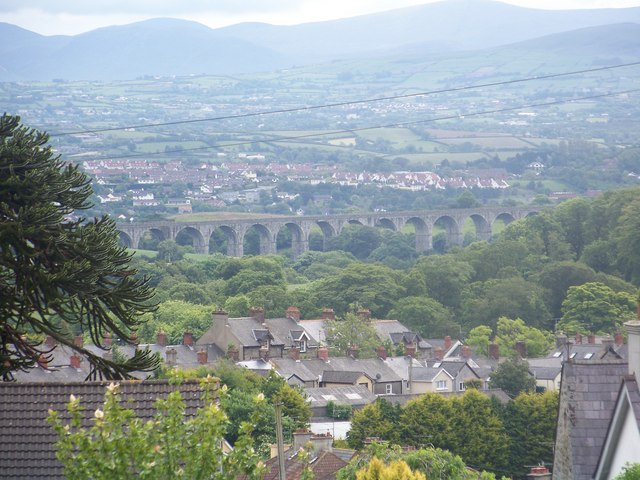 View over Bessbrook A view of the Craigmore Viaduct which carries the Belfast to Dublin railway line from Convent Hill.